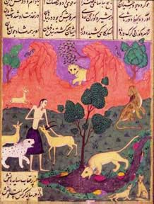 Majnun communing with the wild animals. Miniature for the manuscript of "Leyli and Majnun" poem of Nizami Ganjavi